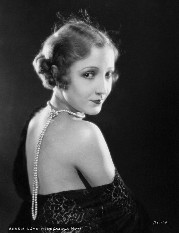 Bessie Love for Metro-Goldwyn-Mayer